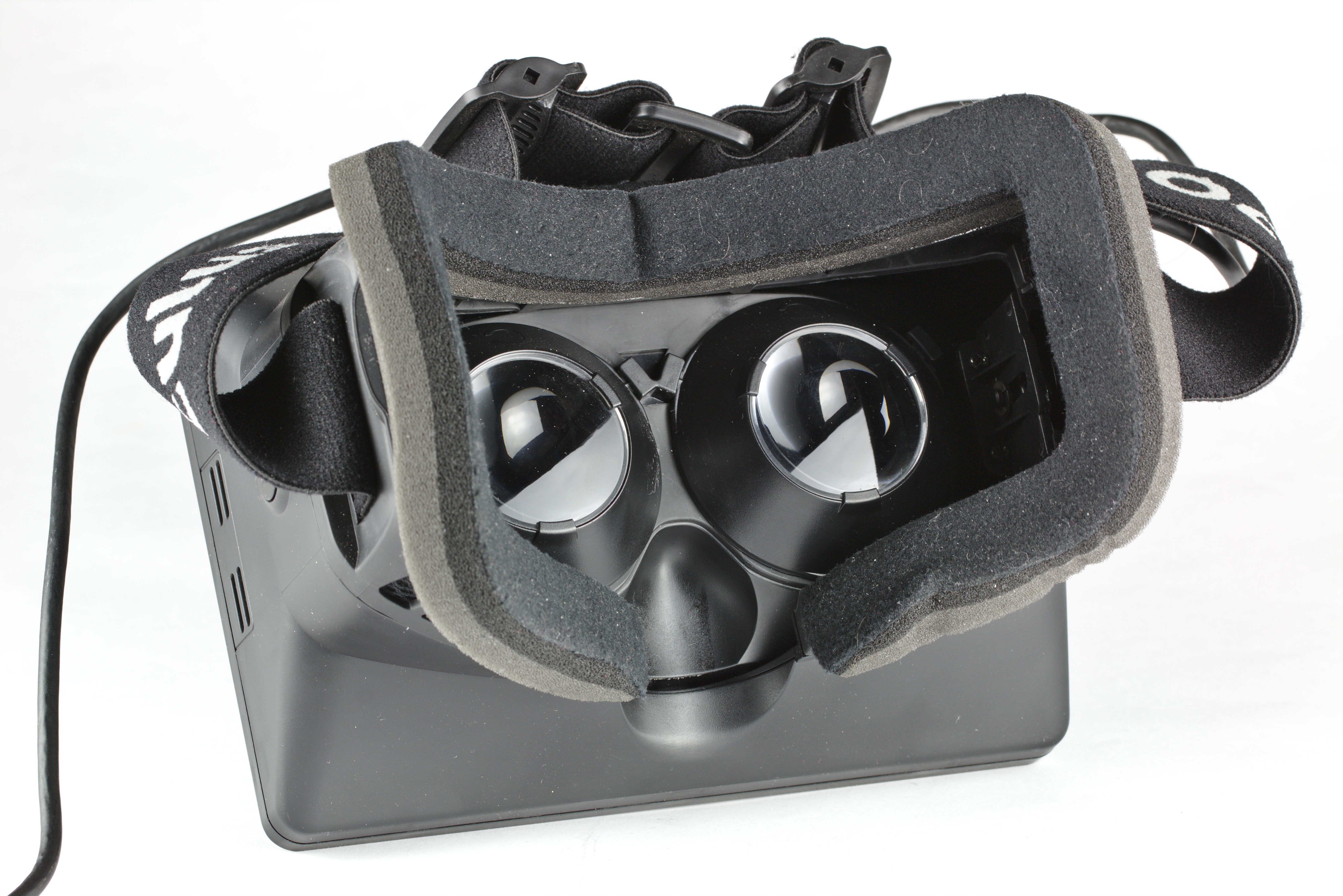 Oculus Rift - Developer Version - Back